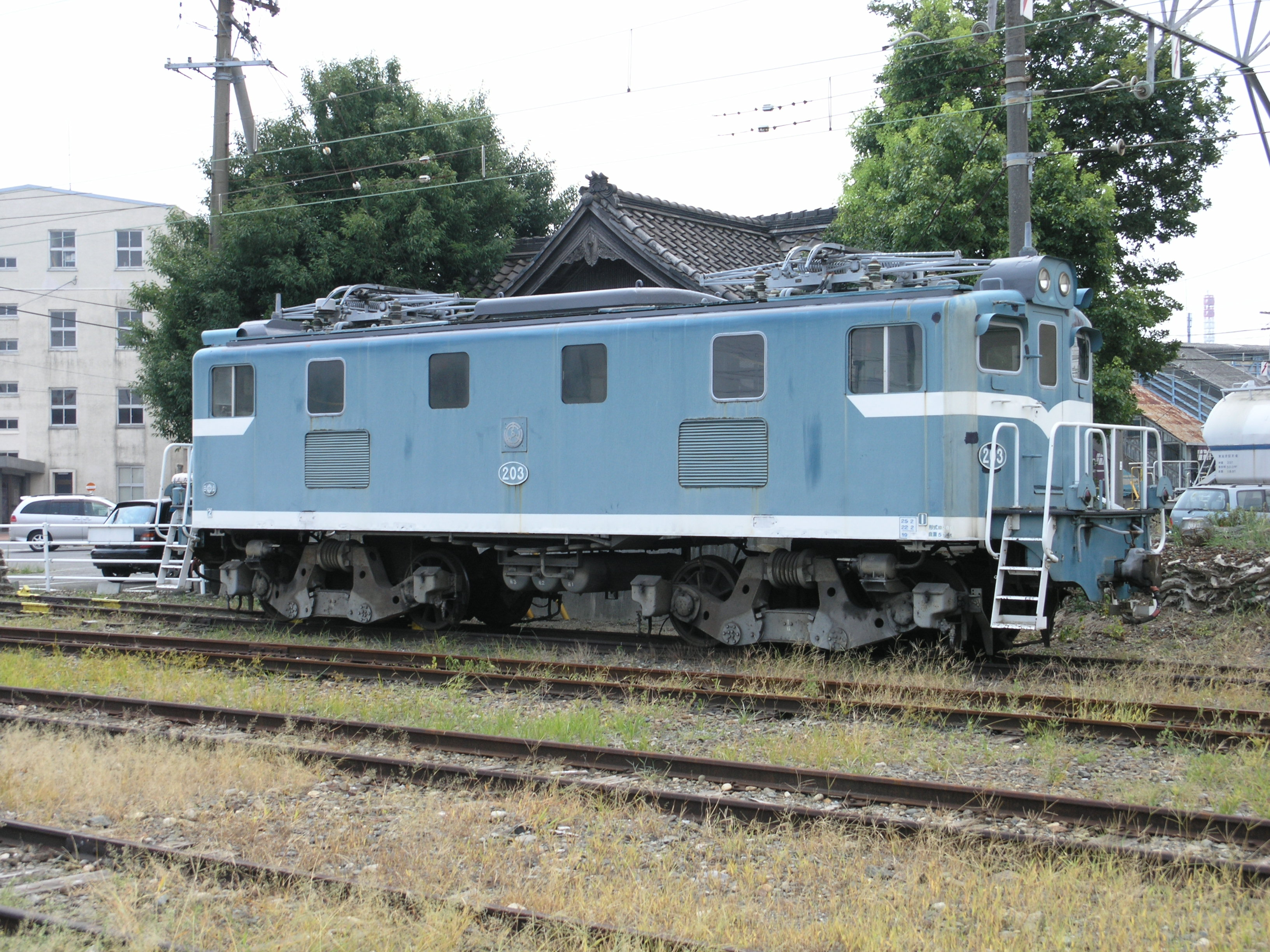 Former Chichibu Railway Class DeKi 200 electric locomotive DeKi 203 on the Sangi Railway